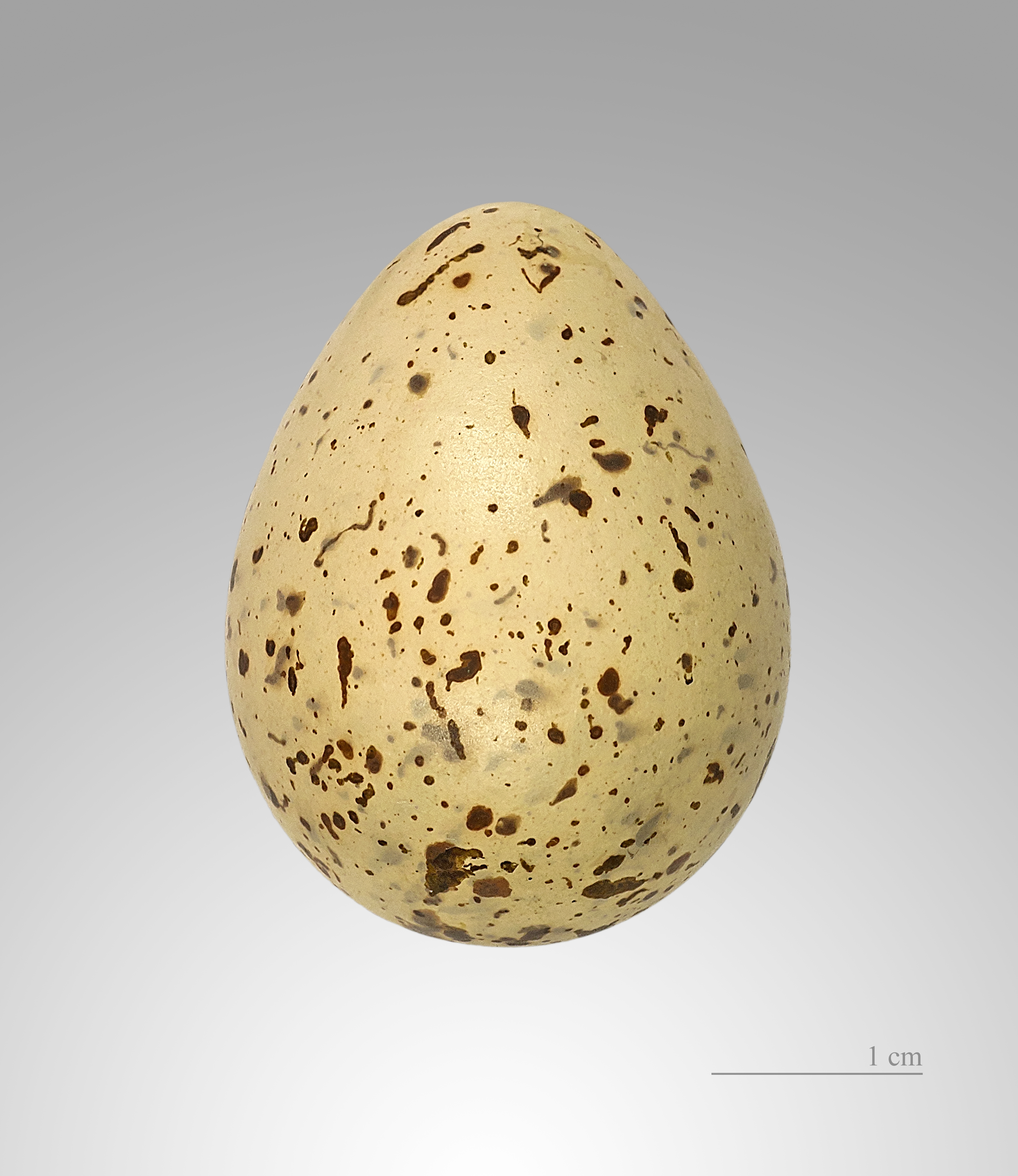 Egg of Common Sandpiper. Collection of Jacques Perrin de Brichambaut.